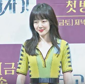 Im Soo-jung at the press conference of Chicago Typewriter